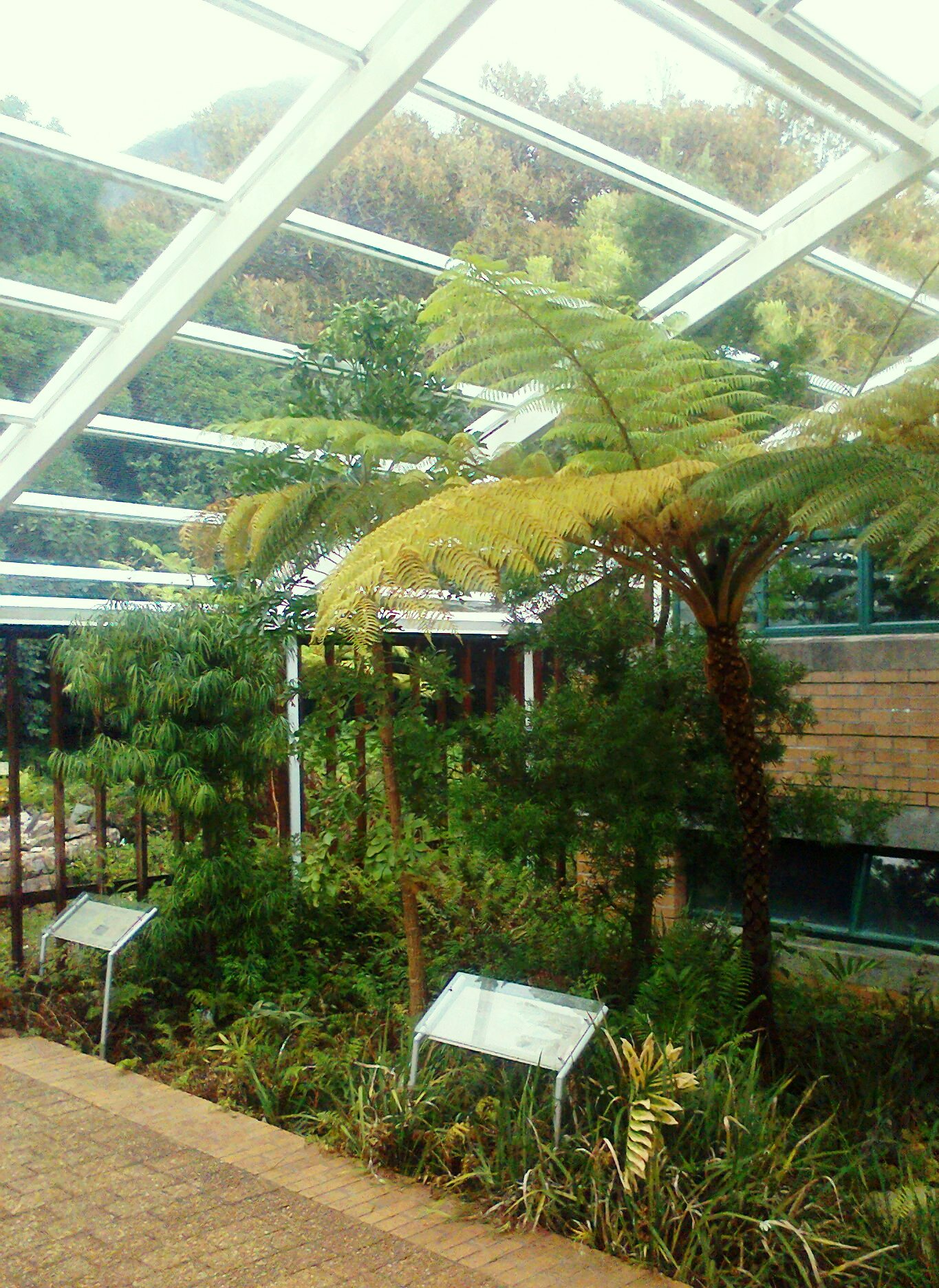 Reconstructed vegetation of Prehistoric South Africa in Triassic Molteno formation. Kirstenbosch.